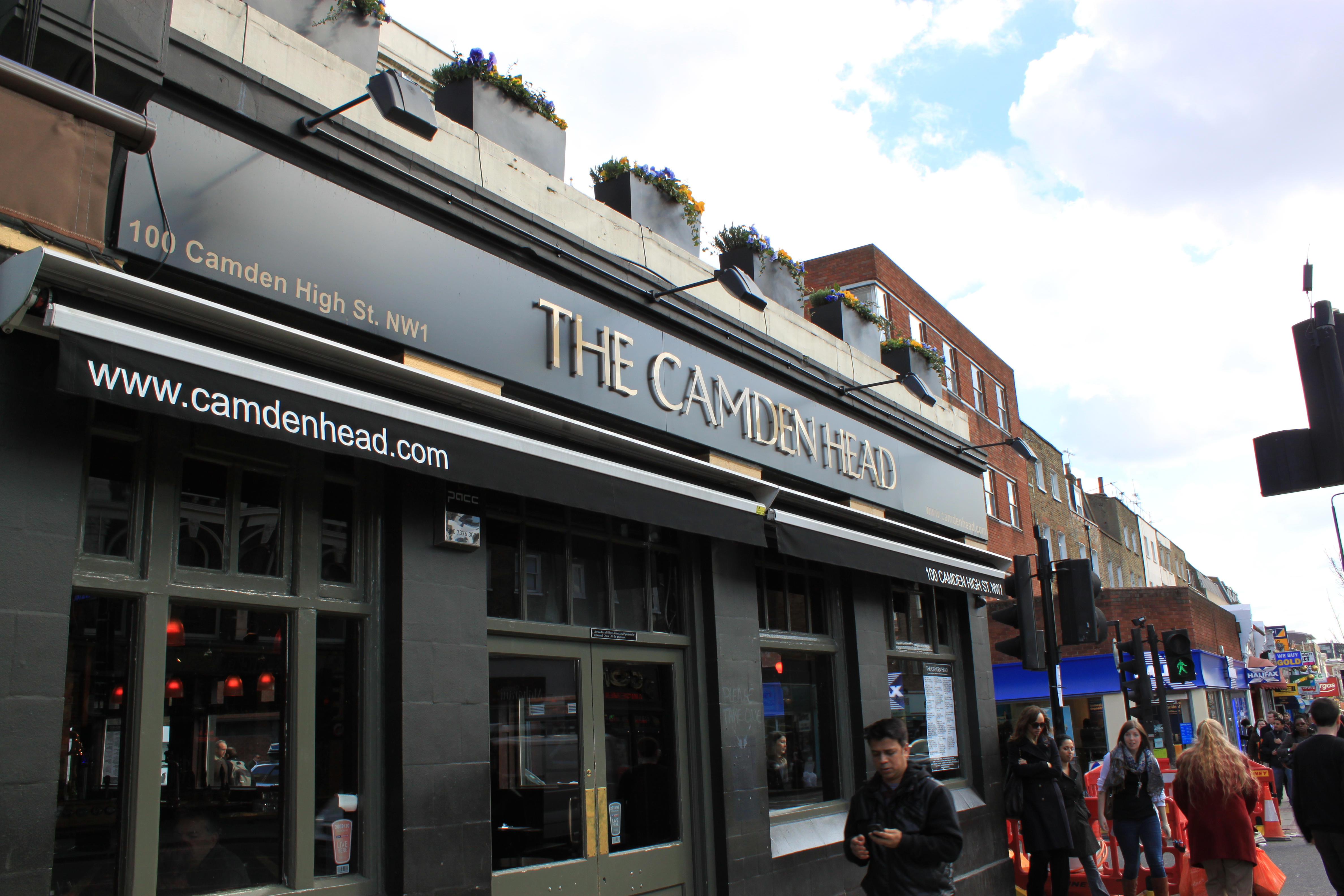 The Camden Head from Camden High Street